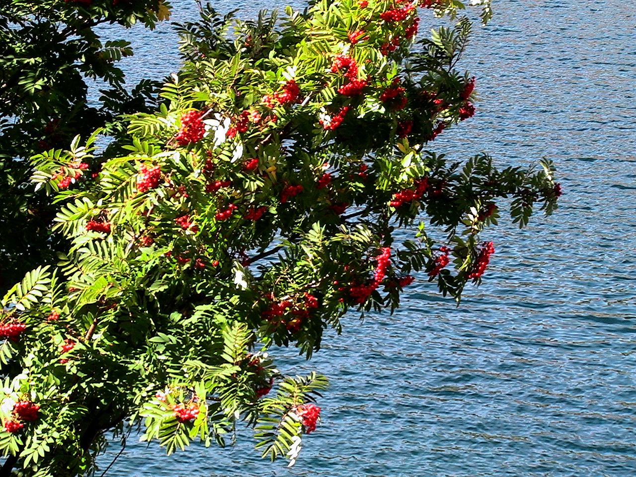 Sorbus aucuparia. In Estany Gento (Cabdella-Pallars Jussà-Catalunya). To 2.145 m. altitude